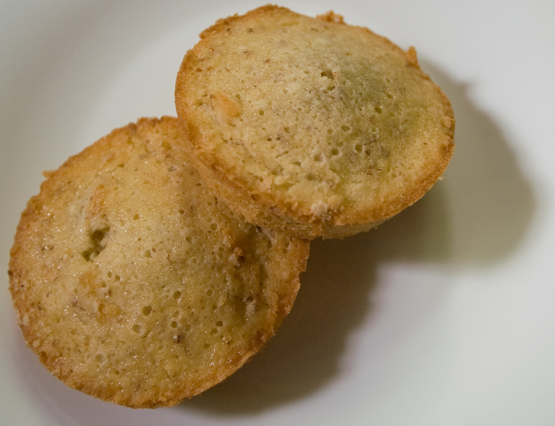 Two financier cakes.